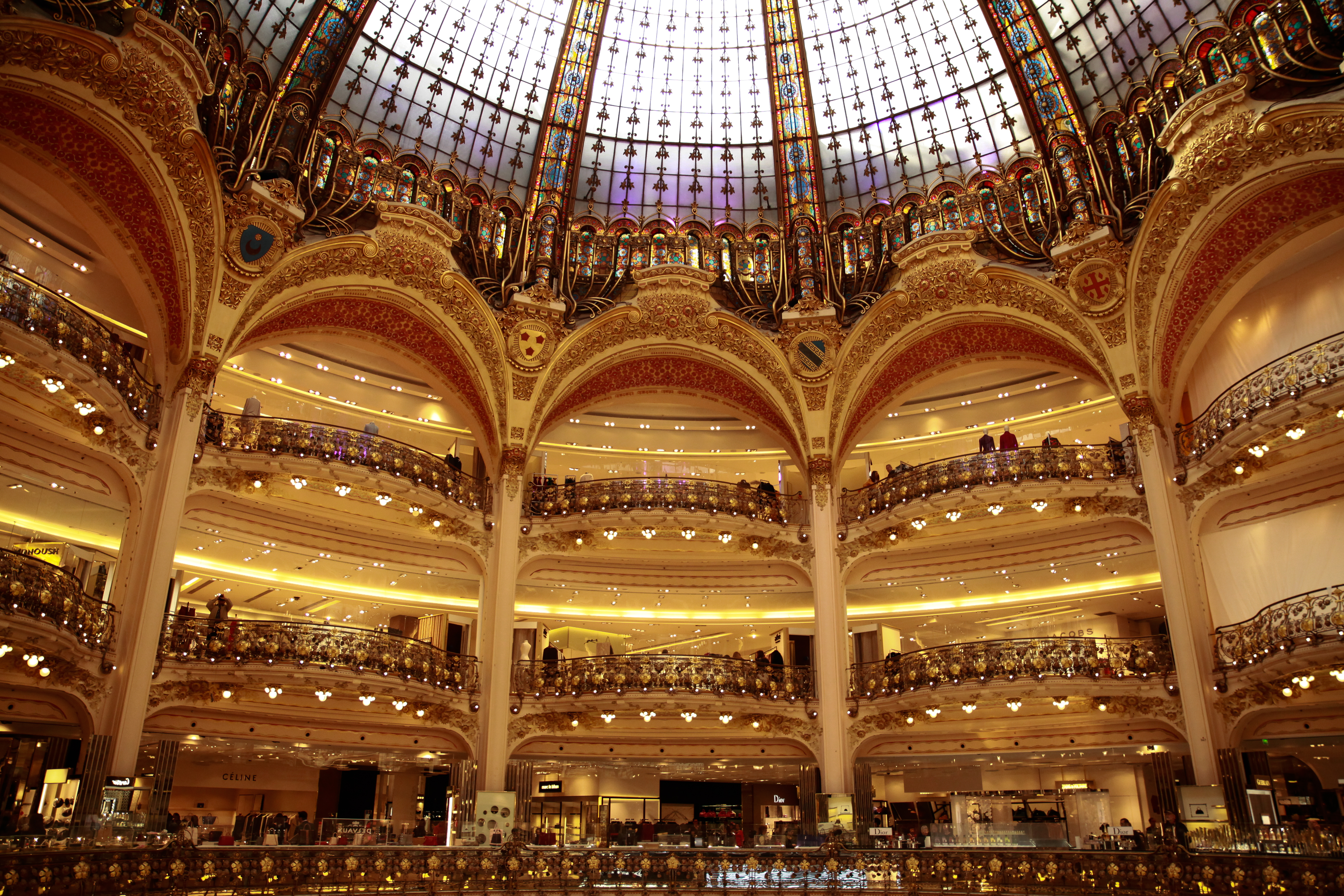 Cupola of Galeries Lafayette Haussmann, Paris.